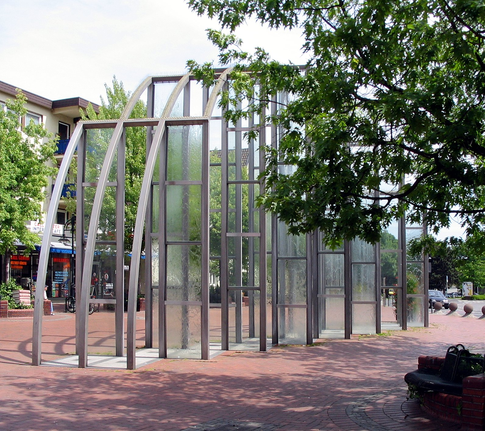 Troisdorfer city gate